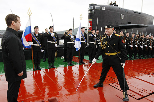 KRASHENINNIKOV BAY, KAMCHATKA. At the Pacific Fleet submarine base.